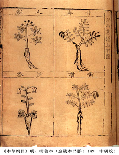 Illustration from Compendium of Materia Medica